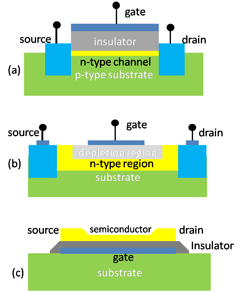 Schematic graphs of three different kinds of Field-Effect Transistor (FET)